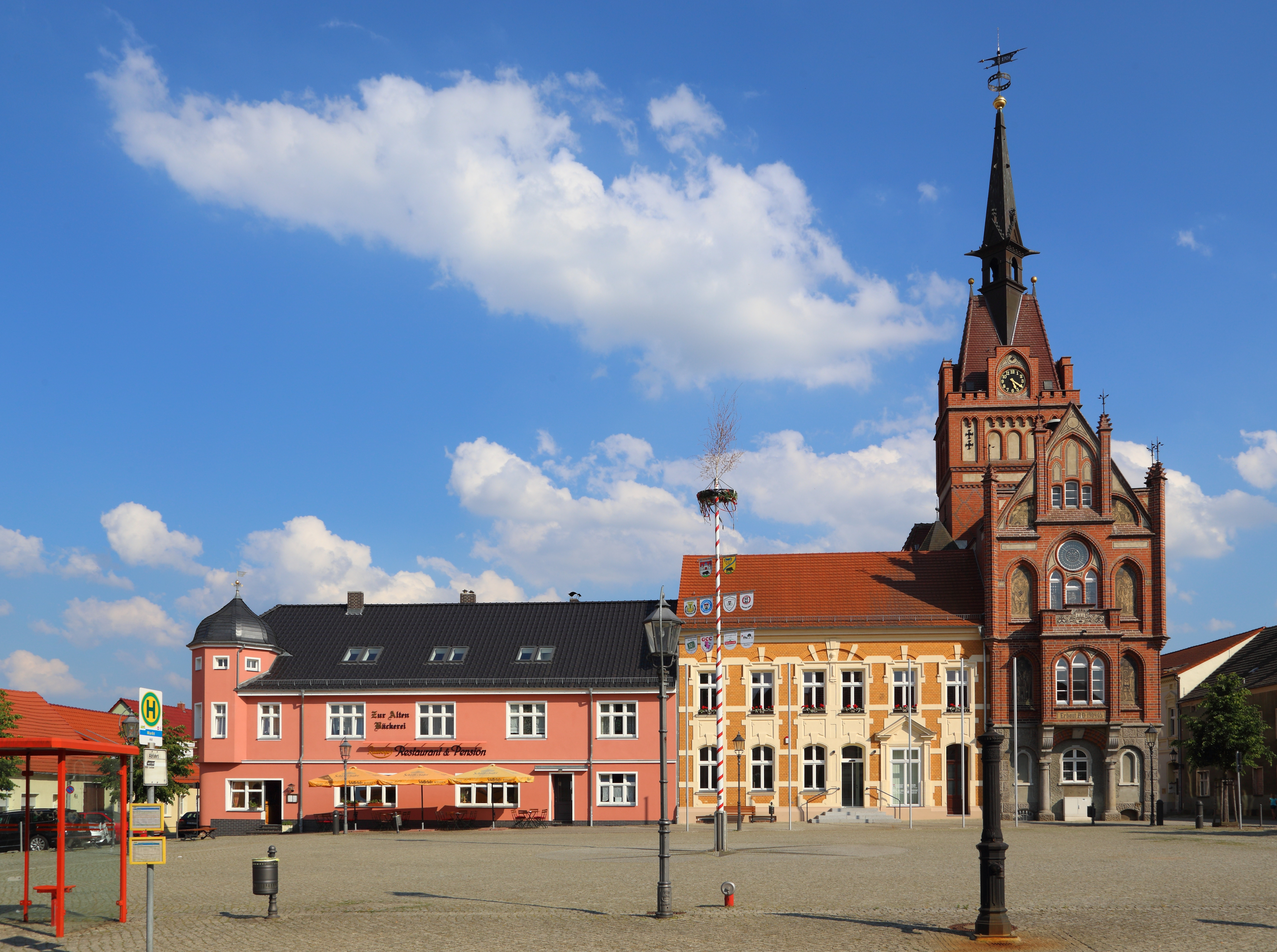 The Market Square (Markt) of Golßen, Landkreis Dahme-Spreewald, Brandenburg, Germany. The building with the tower is the Town Hall, a listed cultural heritage monument.